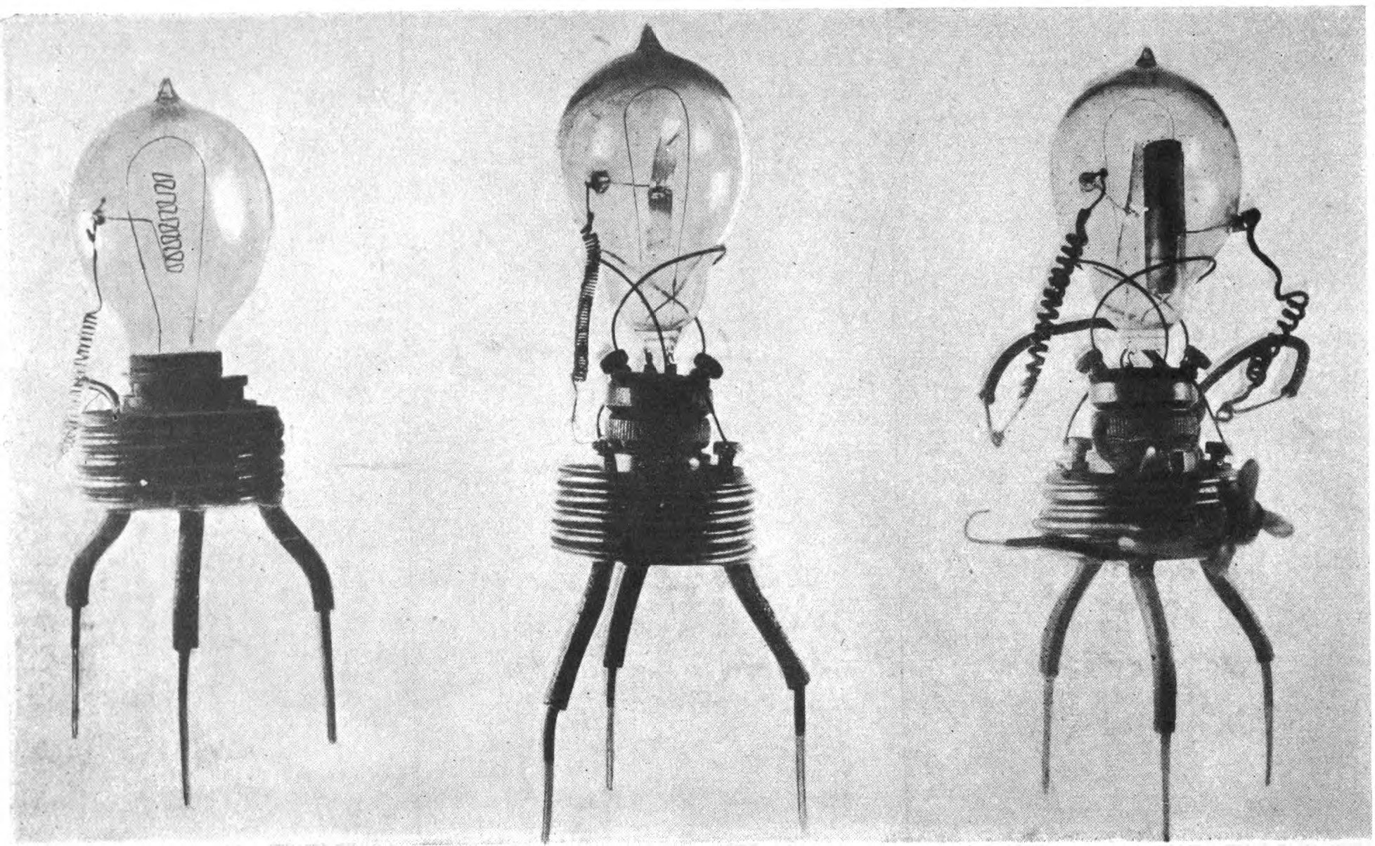 The first prototype Fleming valves. The Fleming valve, invented in 1904 by John Ambrose Fleming, as a detector for radio waves in early radio receivers, was the first thermionic diode and the first vacuum tube. The basic configuration consisted of an evacuated glass bulb containing two electrodes: a cathode in the form of a wire filament heated white-hot by a current through it, and a metal anode usually consisting of a flat plate. Since only the filament produces electrons, the current of electrons through the tube can only pass in one direction, from filament to anode. In these early tubes, the filament is the vertical loop of wire, while the anode has various shapes, such as the coil of wire in the lefthand tube. The caption says: "Photograph of the oscillation valves first employed by Dr. J. A. Fleming, FRS, in October 1904, for the rectification of high-frequency electric oscillations as used in wireless telegraphy"